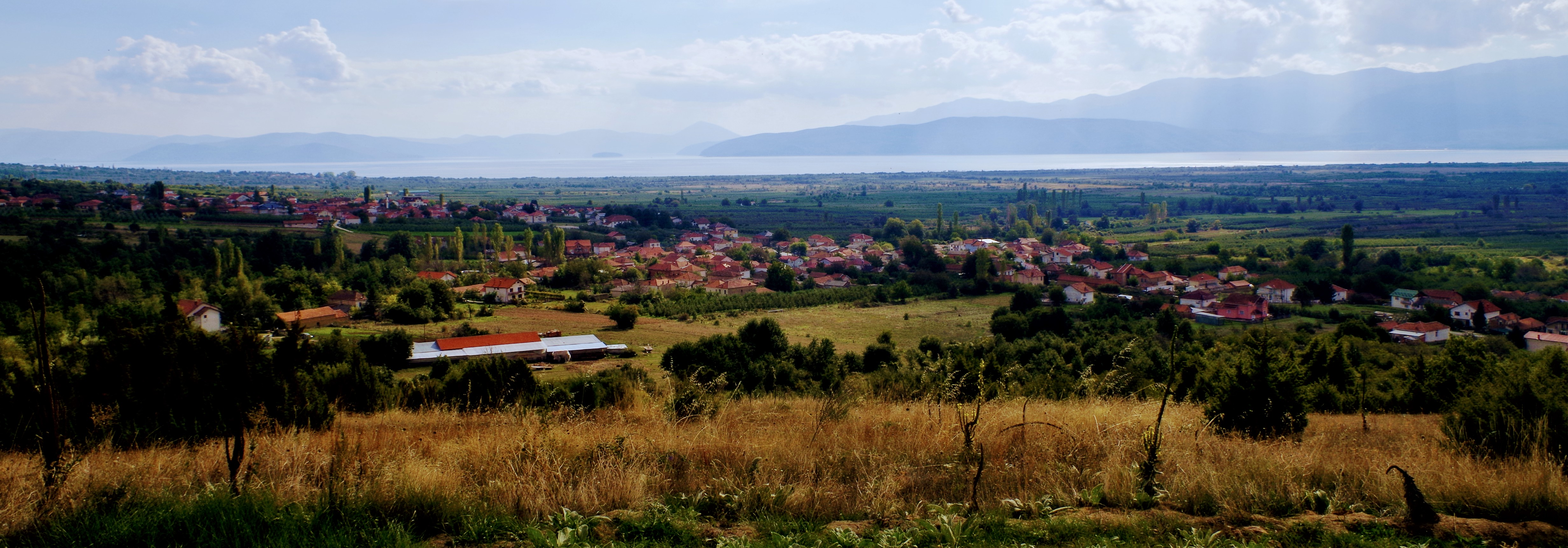 View of the village Podmočani